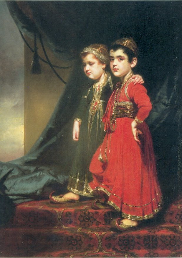 Portrait of William Kirkpatrick (born Mir Ghulam Ali, Sahib Allum) and his sister Catherine Aurora "Kitty" Kirkpatrick (born Noor un-Nissa, Sahib Begum), probably painted at Madras, India, ca. 1805.